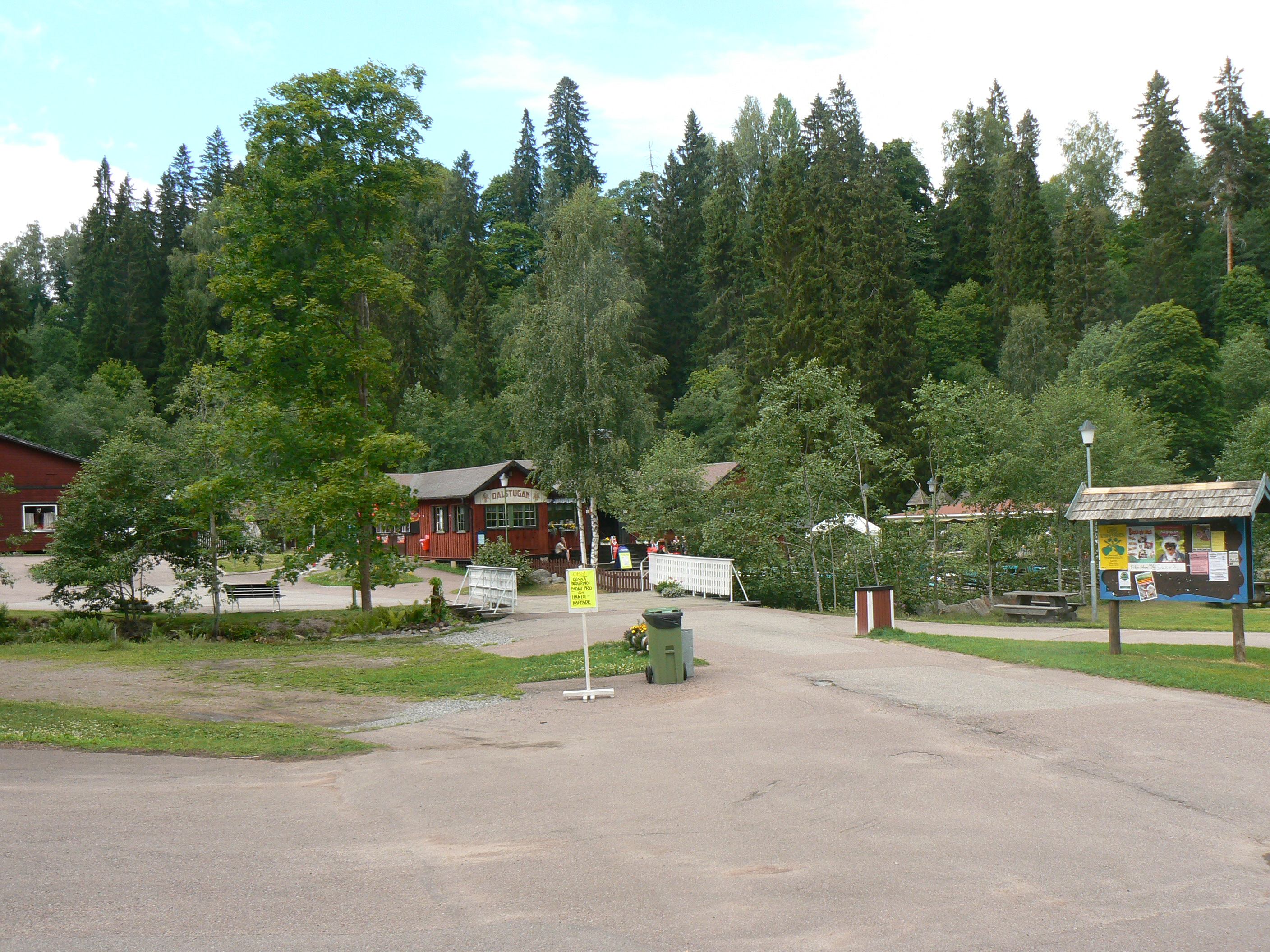 Scene from the Säterdalen (Säter Valley) in Dalarna, Sweden.